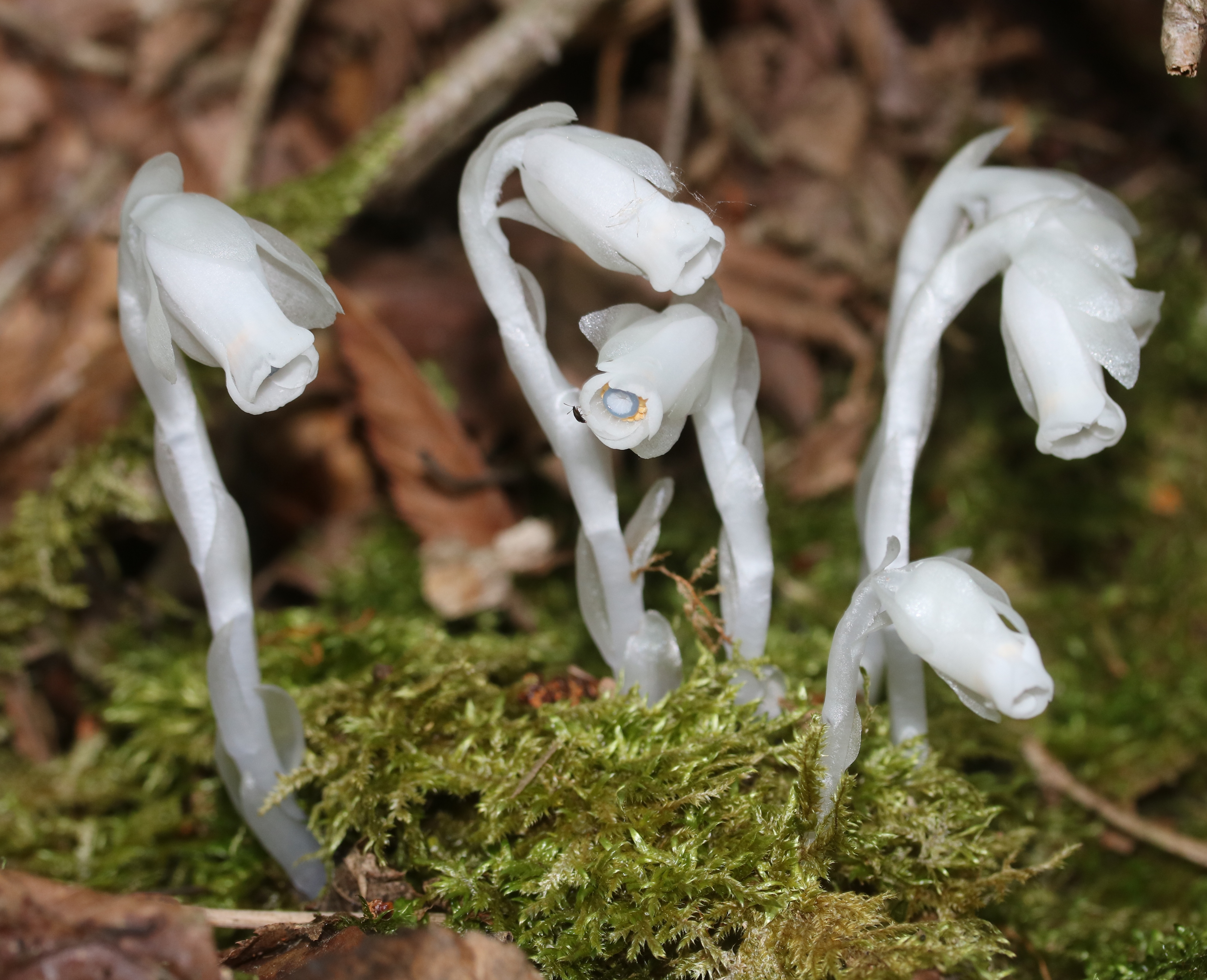 Monotropastrum humile in Mount Ena, Kiso Mountains, Nakatsugawa, Gifu Prefecture, Japan.